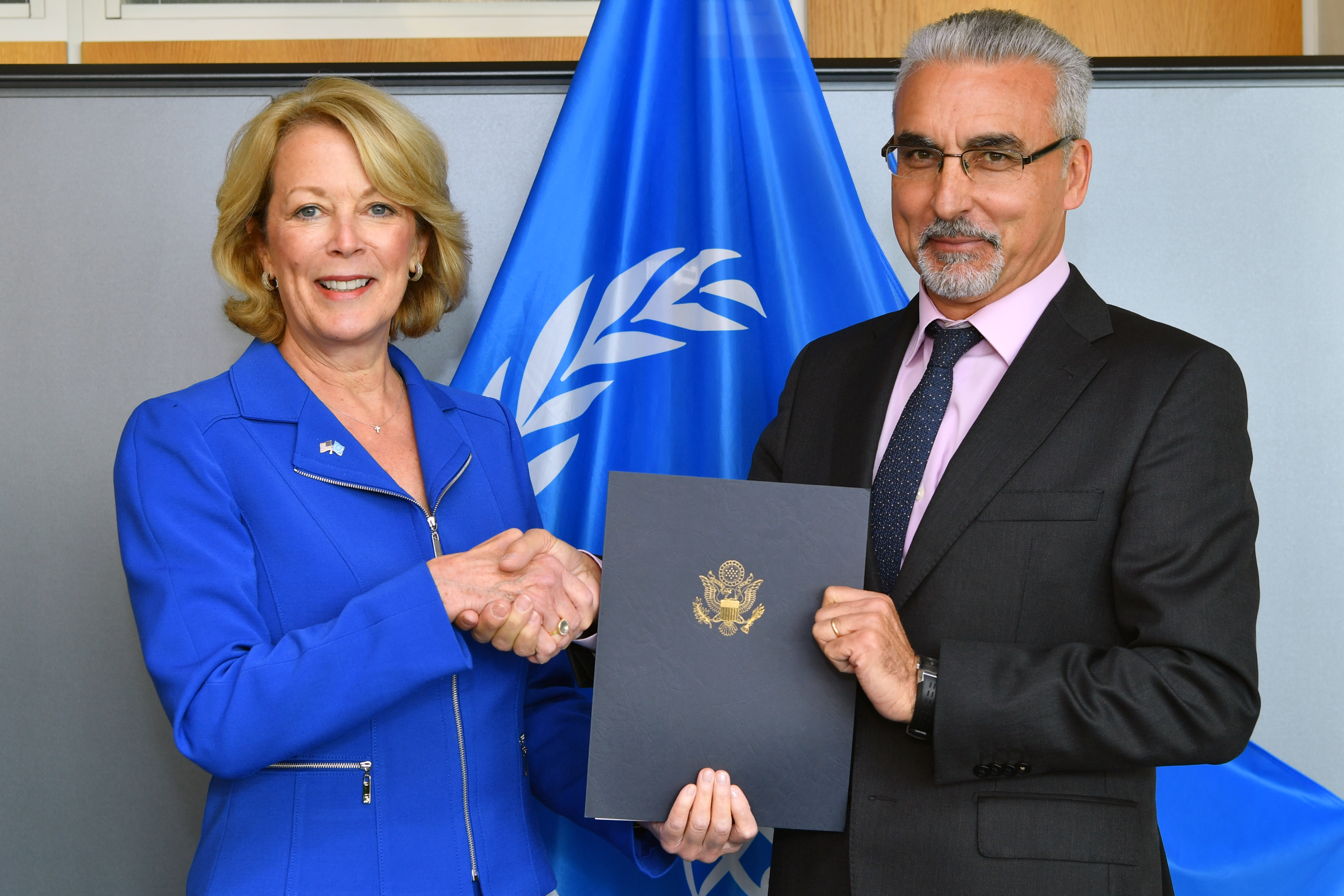 The new Resident Representative of the United States of America to the IAEA, HE Ms Jackie Wolcott, presented her credentials to Juan Carlos Lentijo (right), IAEA Acting Director General, and Head of the Department of Nuclear Safety and Security at the IAEA headquarters in Vienna, Austria, on 22 October 2018. Photo Credit: Dean Calma / IAEA